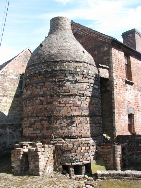 Broseley Pipe Works